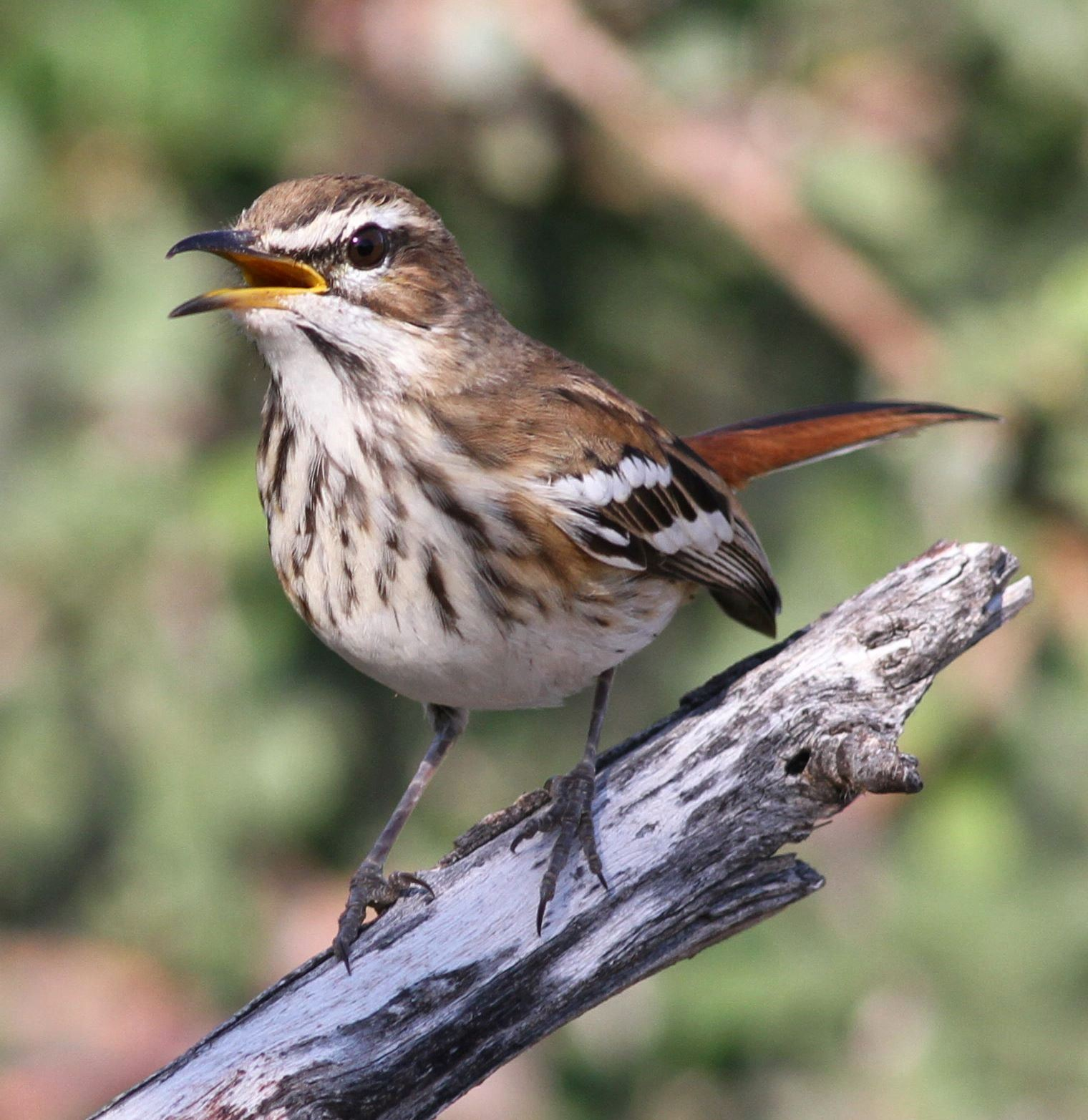 White-browed scrub robin at Mapungubwe National Park, Limpopo, South Africa